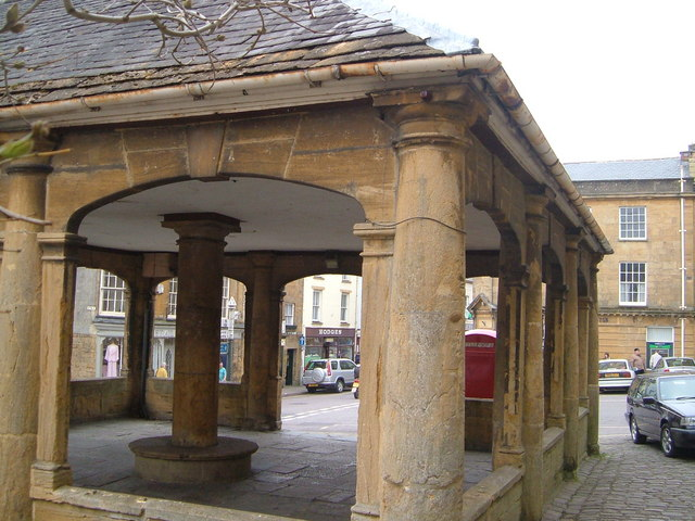 Market House , Ilminster The cross roads at the heart of Ilminster viewed through the ham stone Market House